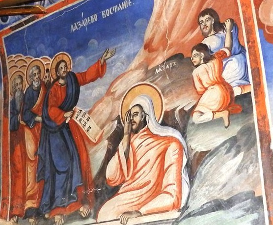 Fresco_in_Saint_Mary_Church_in_Fariš